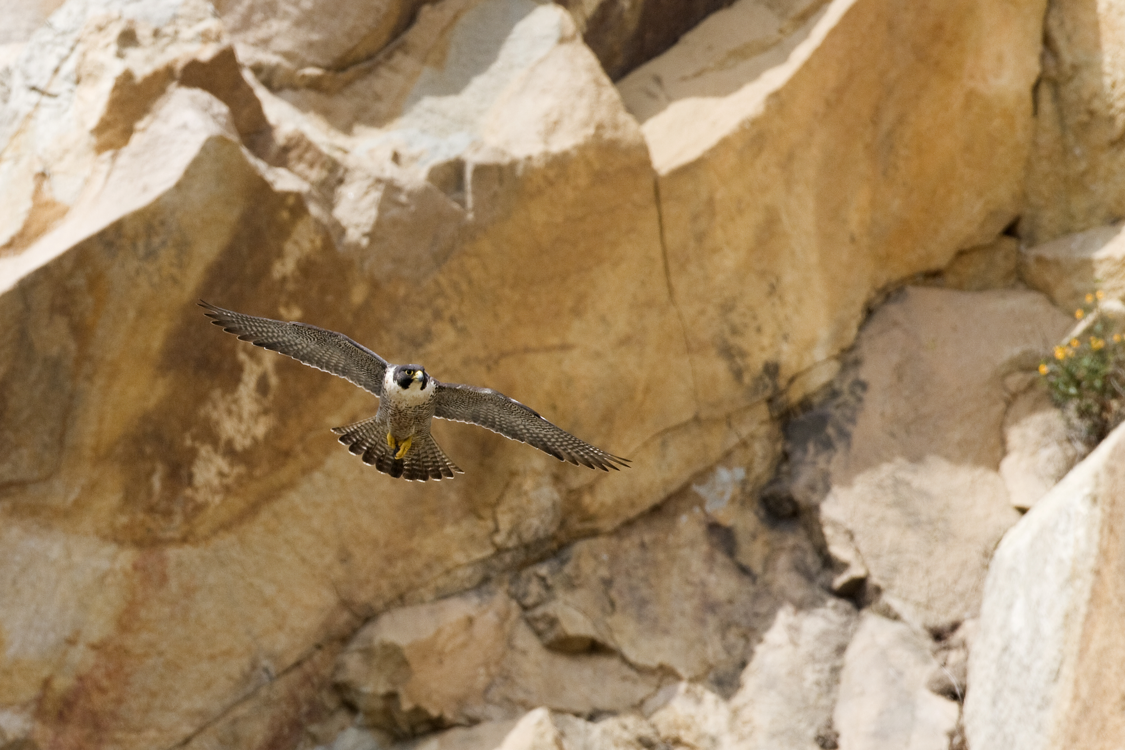 Peregrine Falcon Falco peregrinus in flight across Morro Rock in Morro Bay California.